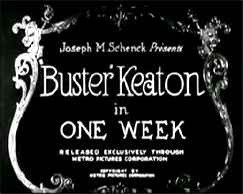 Title card for the 1920[1] Buster Keaton film One Week.